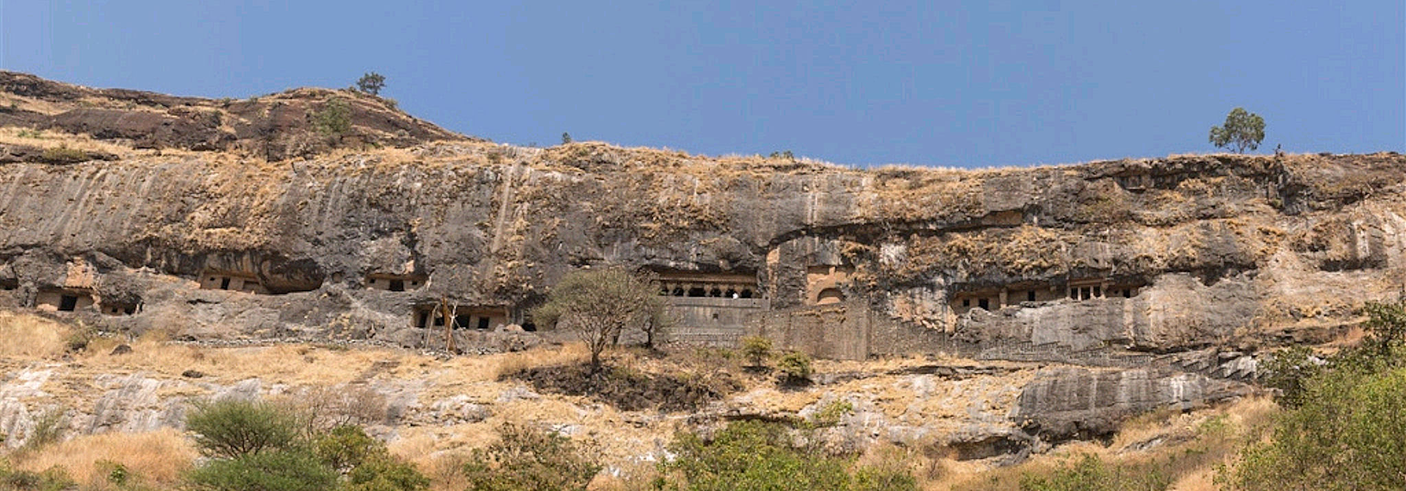 Lenyadri panorama